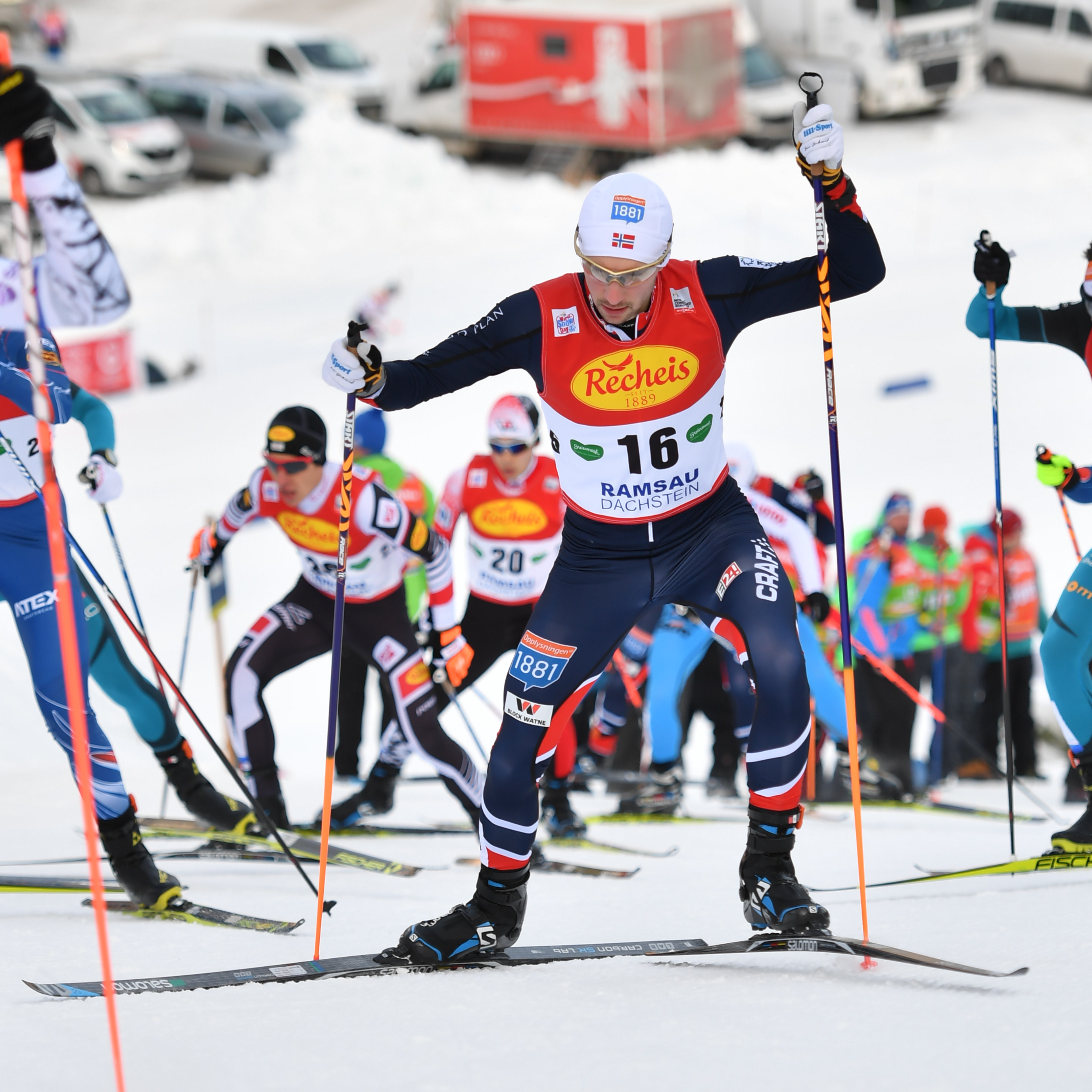 FIS World Cup Nordic Combined, Ramsau/Austria, 2016-12-16 to 2016-12-18.